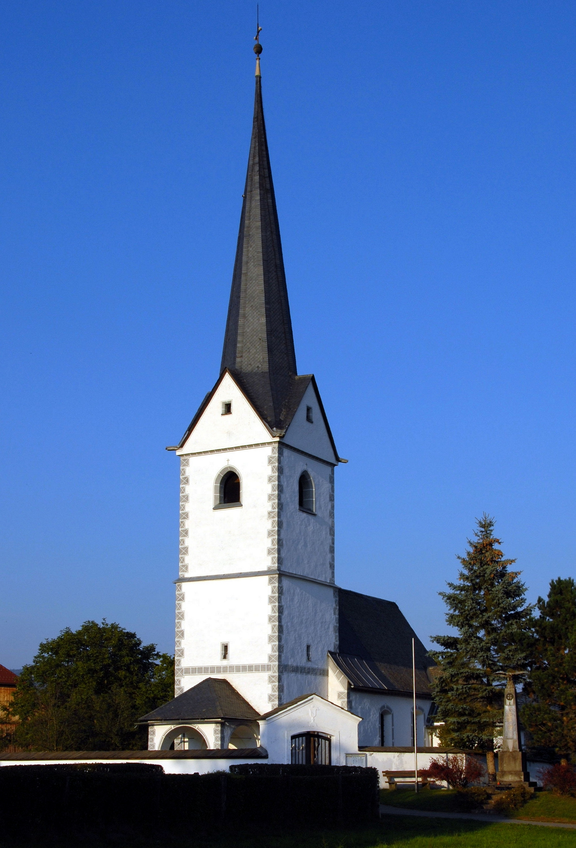 Subsidiary church Saint Lawrence in Sankt Lorenzen, market town Magdalensberg, district Klagenfurt Land, Carinthia, Austria, EU